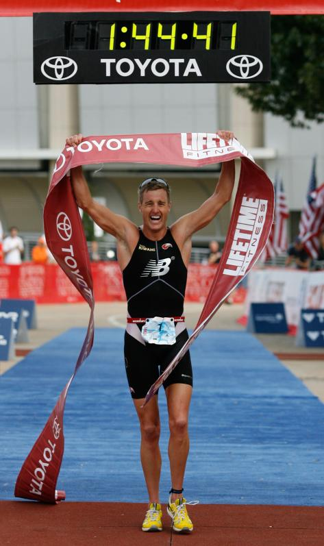 Greg Bennett wins 2007 Lifetime Triathlon US Open Series Final in Dallas